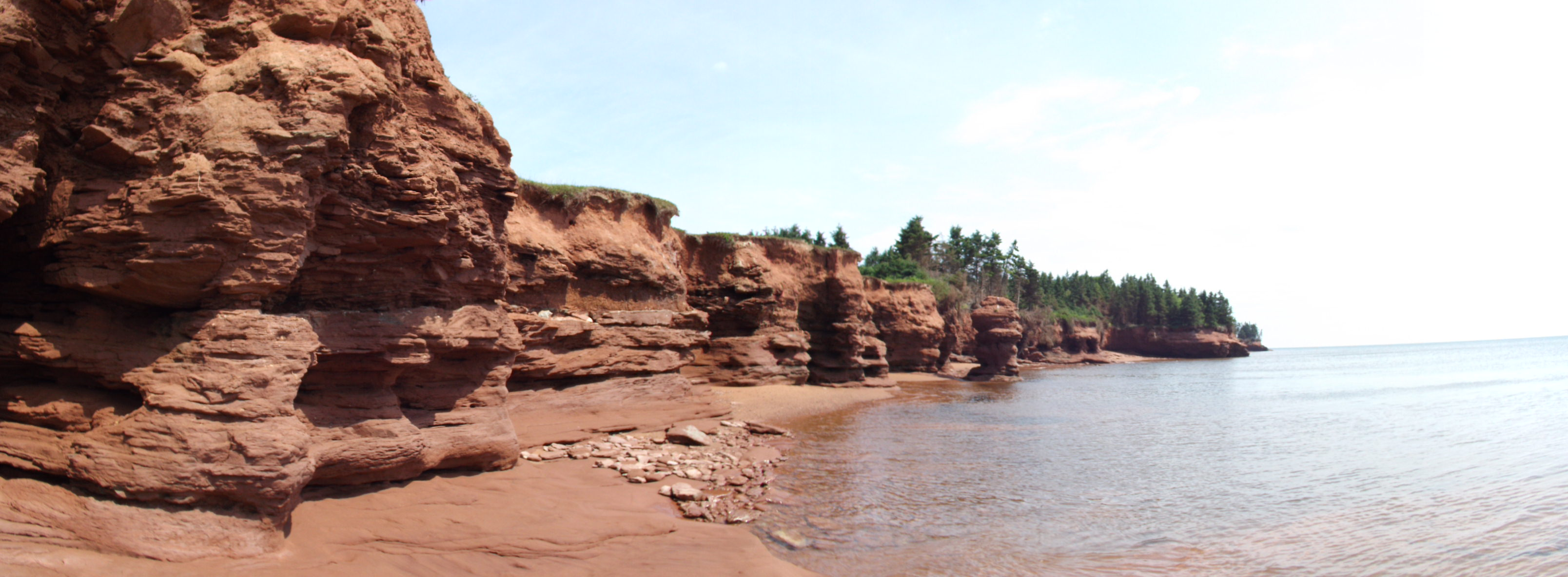 Kildare Capes. Prince Edward Island, Canada